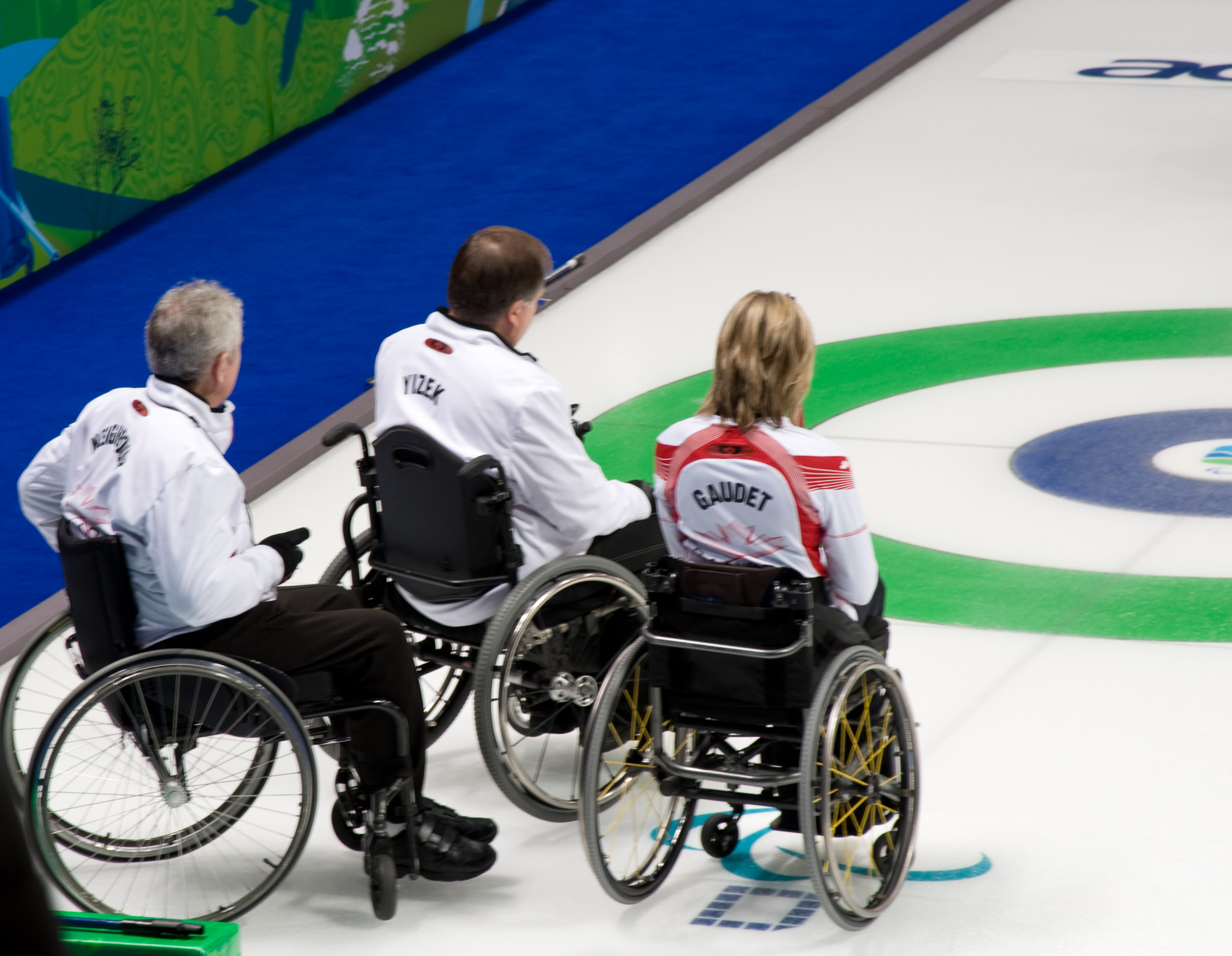 Wheelchair Curling, Vancouver 2010 Paralympics